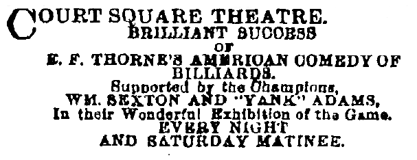 Advertisement for play sponsored by carom billiards players Yank Adams and William Sexton, and who gave exhibitions before the performance.